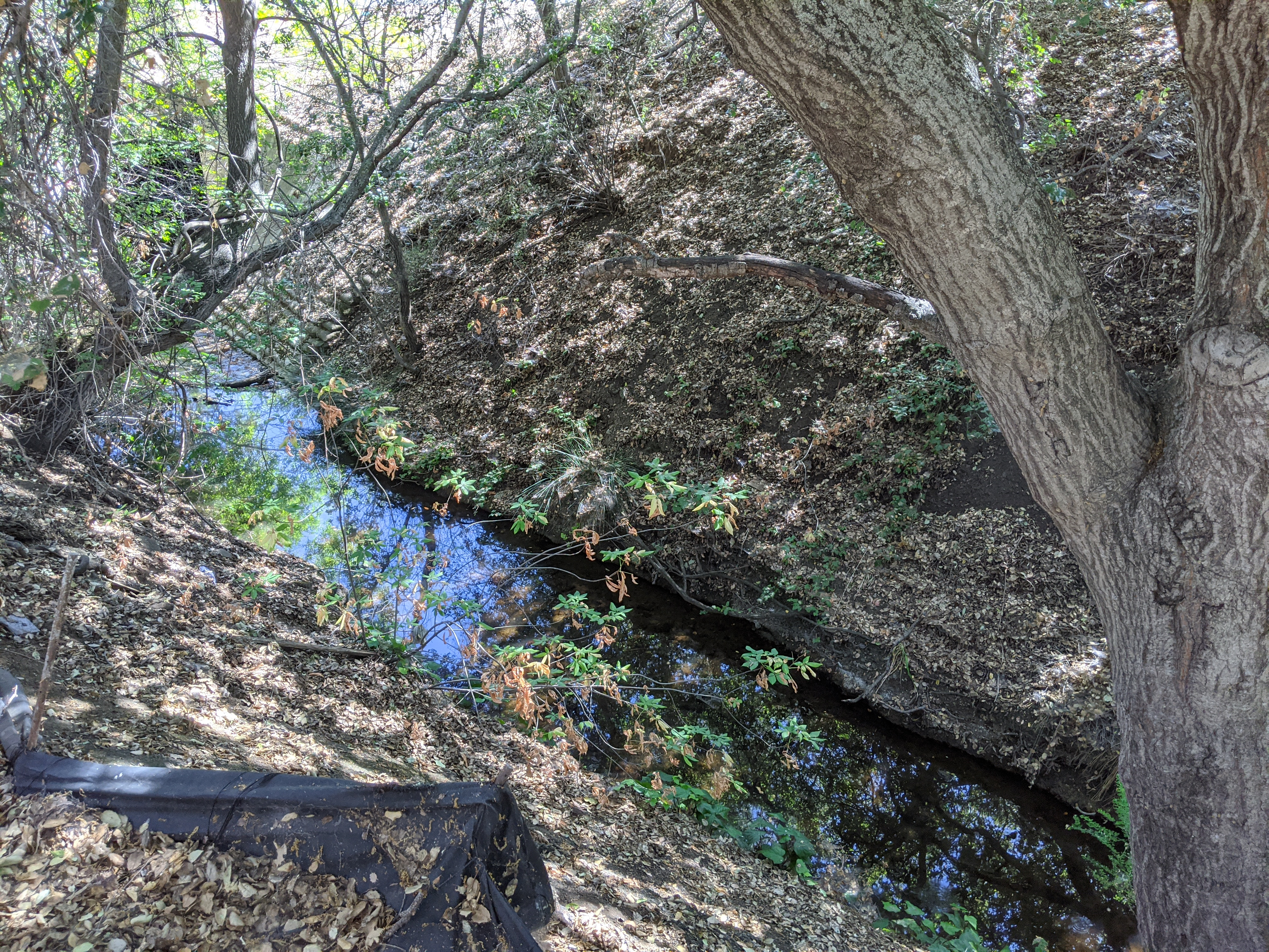 Hale Creek approaching Foothill Expressway, from the south end of Border Road, Los Altos, California